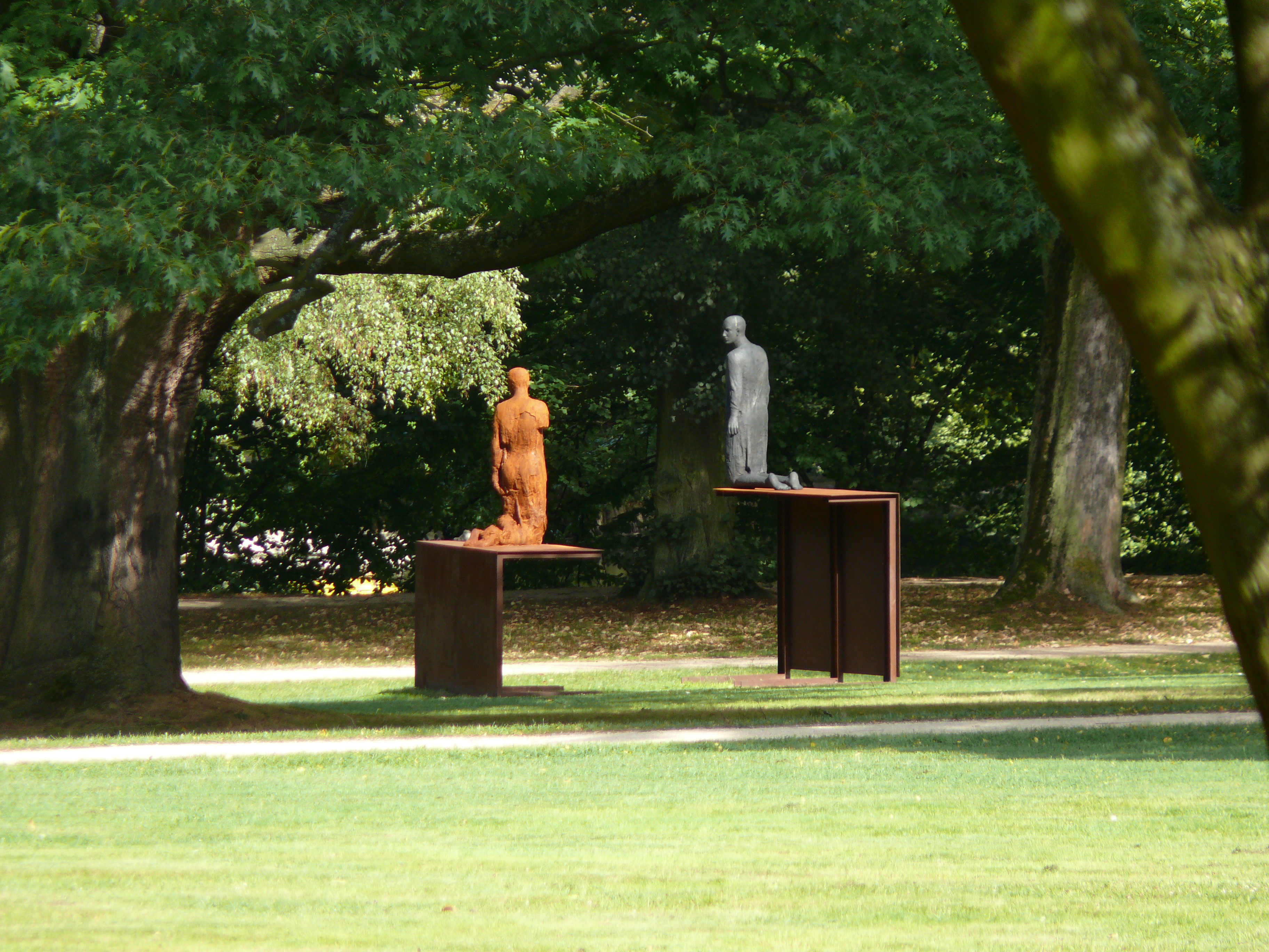 "Melancholia I" from Hanneke Beaumont at "blickachsen 7", 2009, "Kurpark" of Bad Homburg, Hesse, Germany